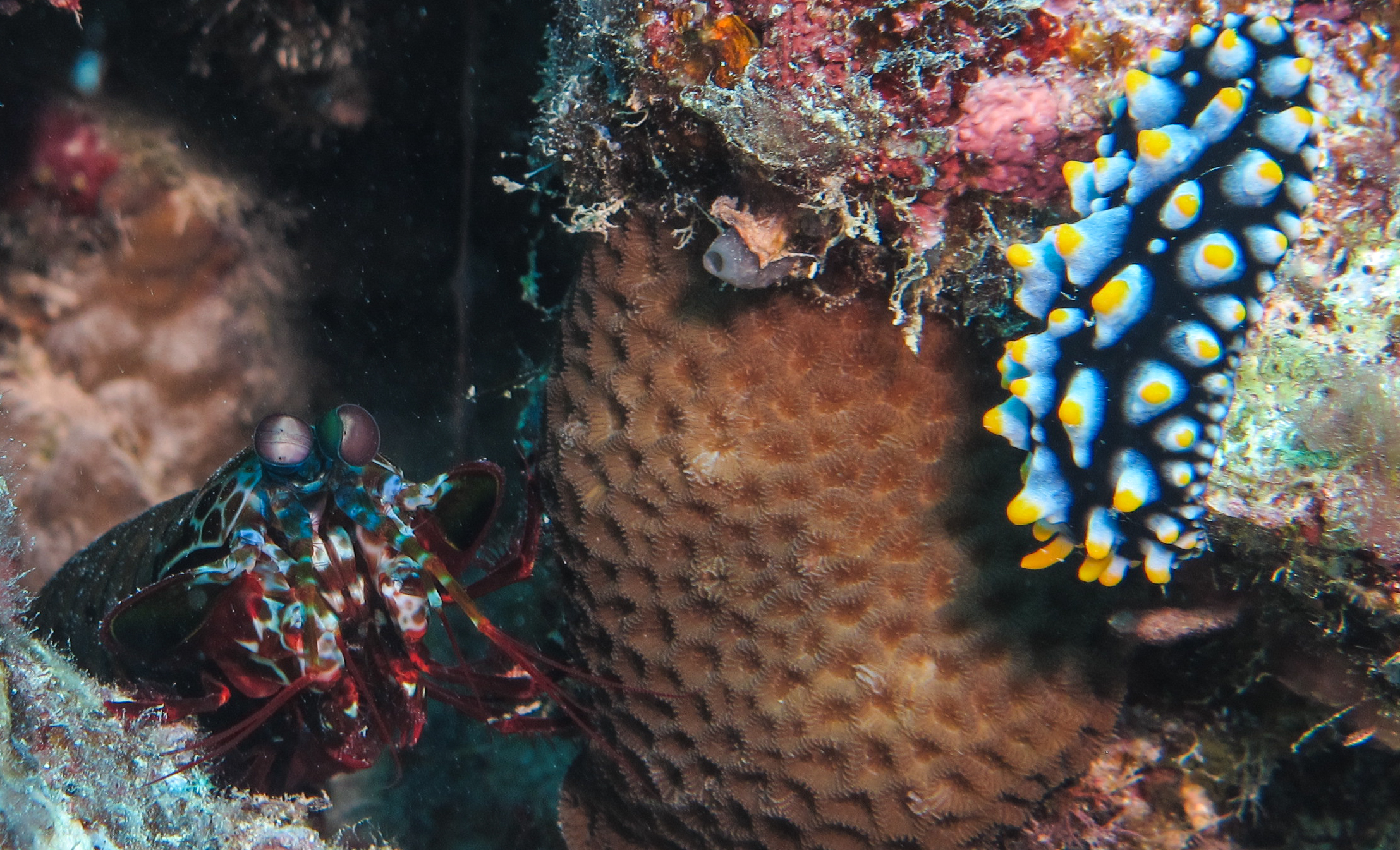 I like this shot because it is feeding are marine crustaceans, the members of the order Stomatopoda. The nudibranch is Phyllidia varicosa. Offshore Taveuni island, Fiji.